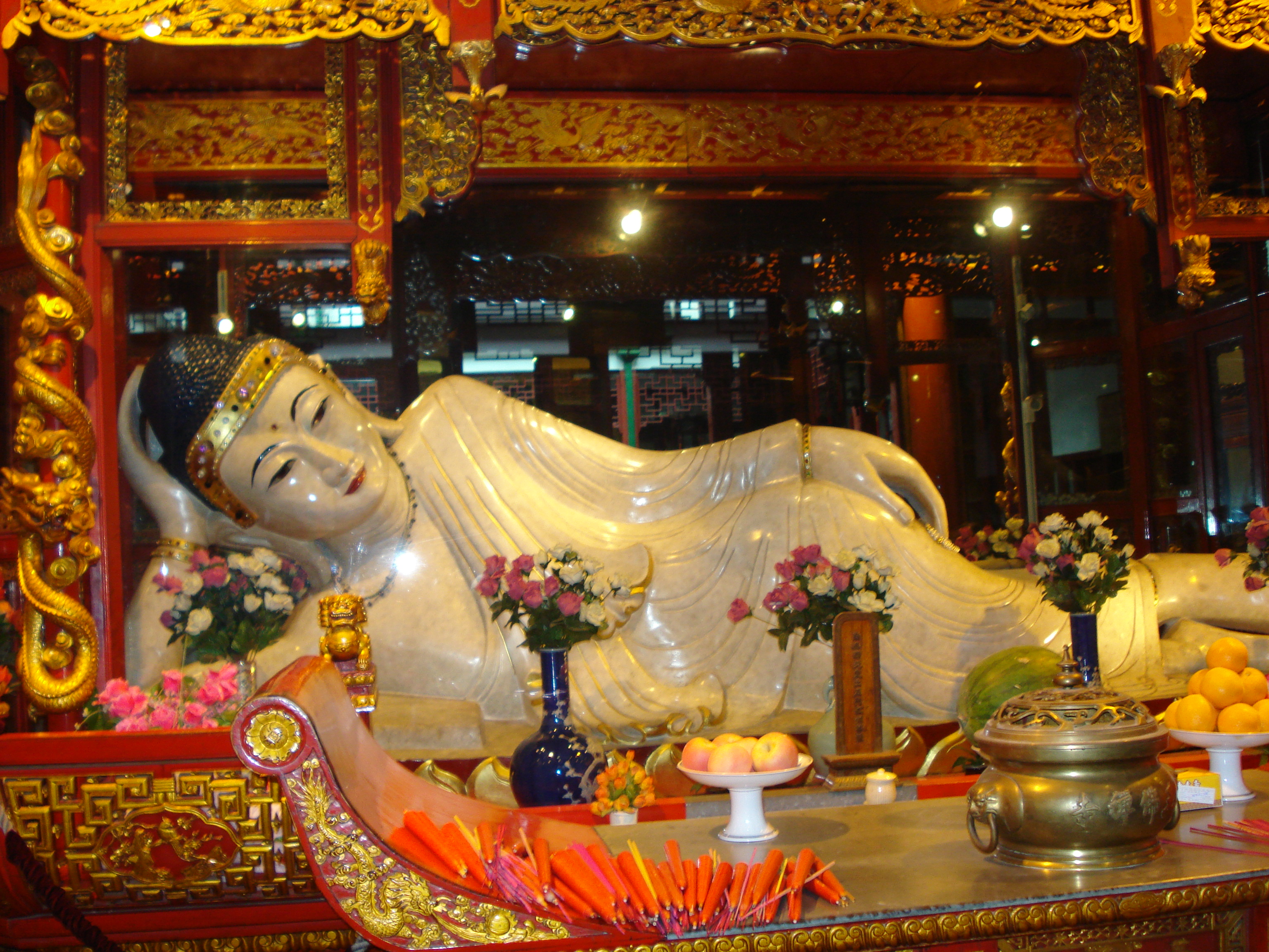 Yufo Si – Jade Buddha Temple: two meters long Buddha sculpture